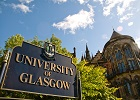 Hunterian Museum, Main Building